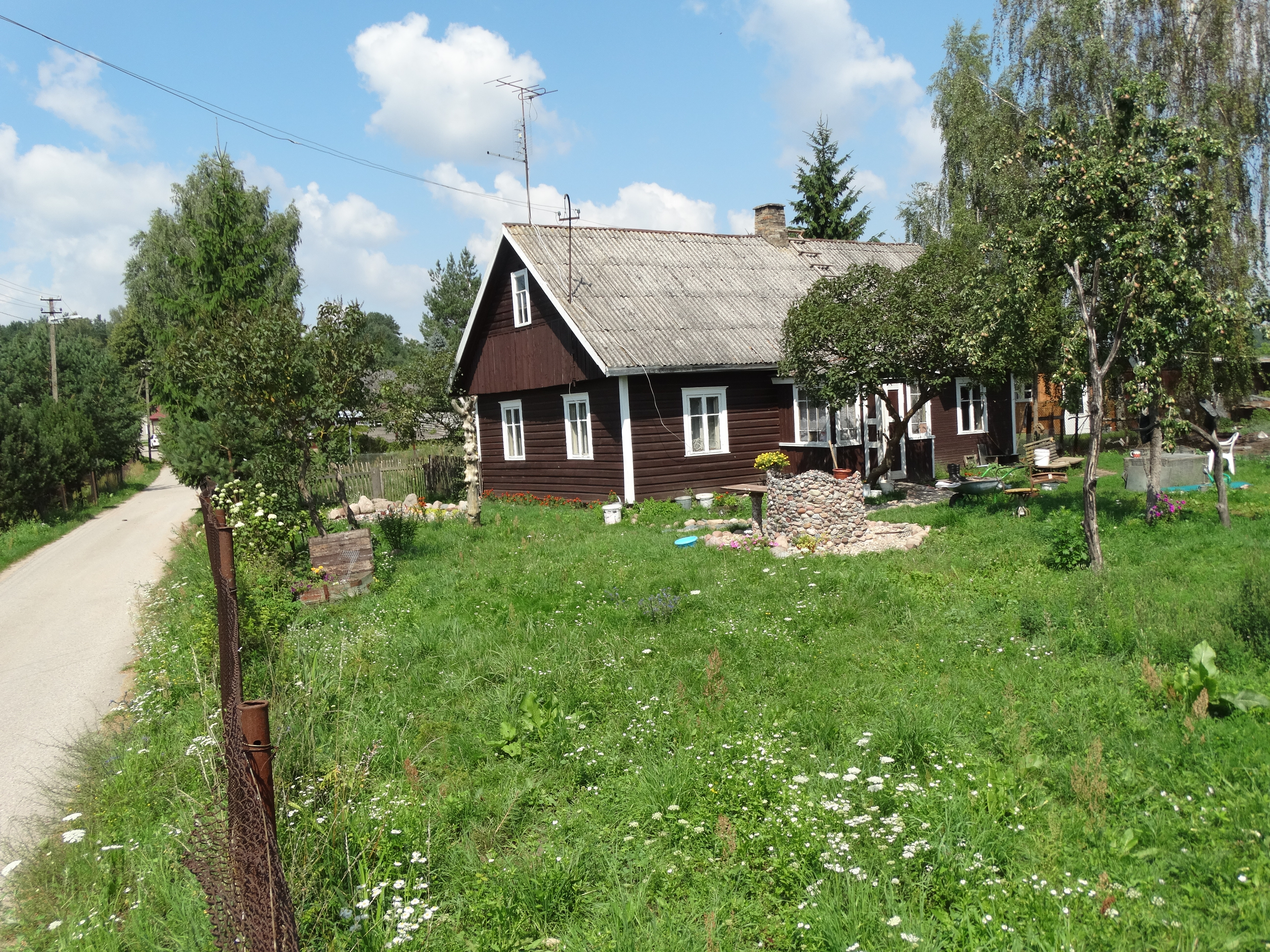 Šančiai, Kaunas district, Lithuania